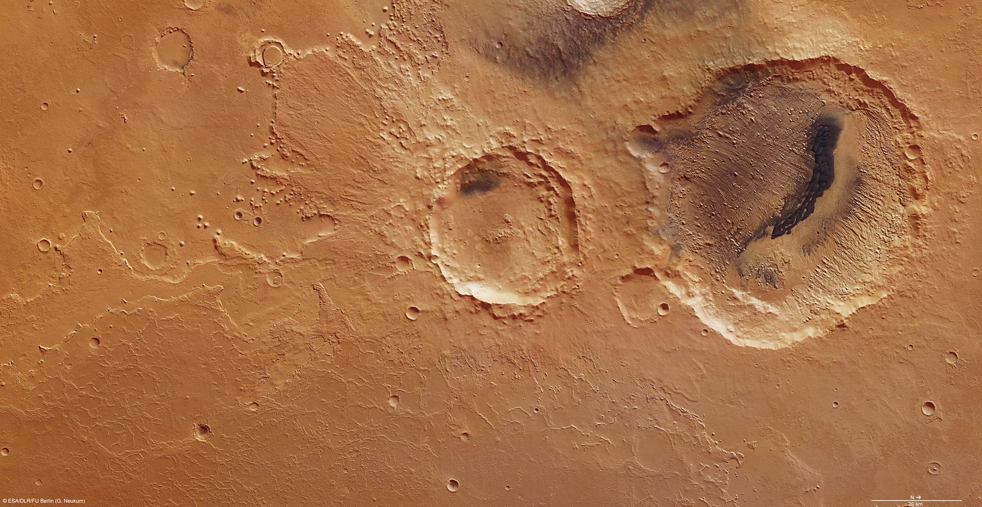 High-Resolution Stereo Camera (HRSC) nadir and colour channel data taken on 19 June2011 by ESA’s Mars Express have been combined to form a natural-colour view of theDanielson and Kalocsa craters and their environment in the Arabia Terra region. Centredat around 7°N and 353°E, this image has a ground resolution of about 26 m per pixel. Theimage shows the yardangs bisected by the darker dune field in Danielson crater.